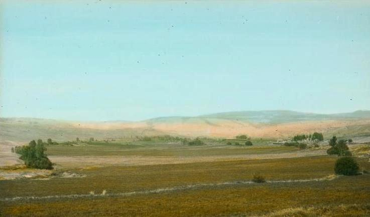 Photograph, glass lantern slide, Gang ranch, Central BC, about 1922, Anonymous, Silver salts and transparent ink on glass - Gelatin dry plate process - 8 x 10 cm